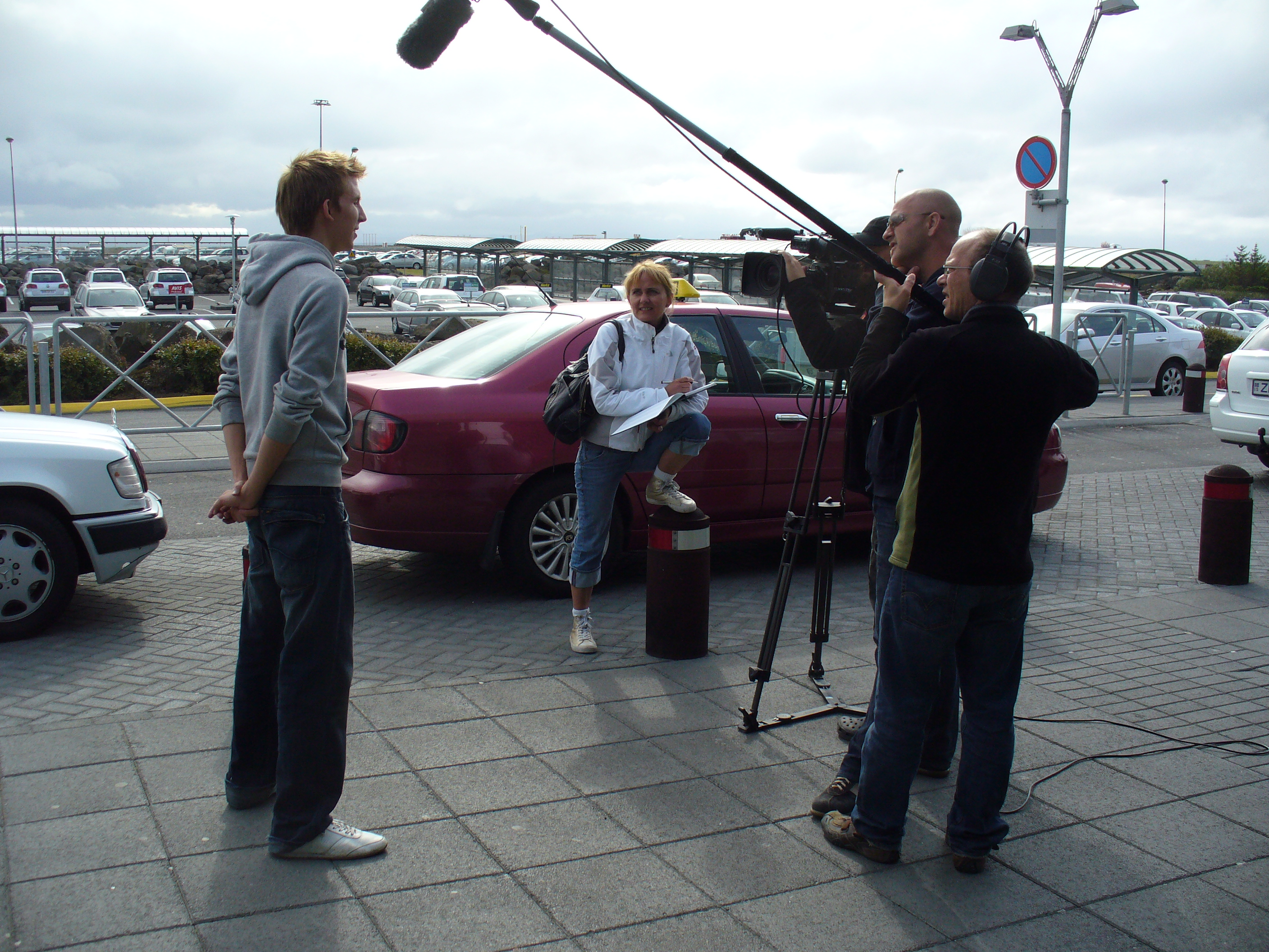 A TV interview for Sýn at Keflavík Airport, Iceland